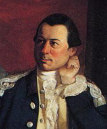 Archibald Bulloch circa 1775 Detail from painting by Henry Benbridge